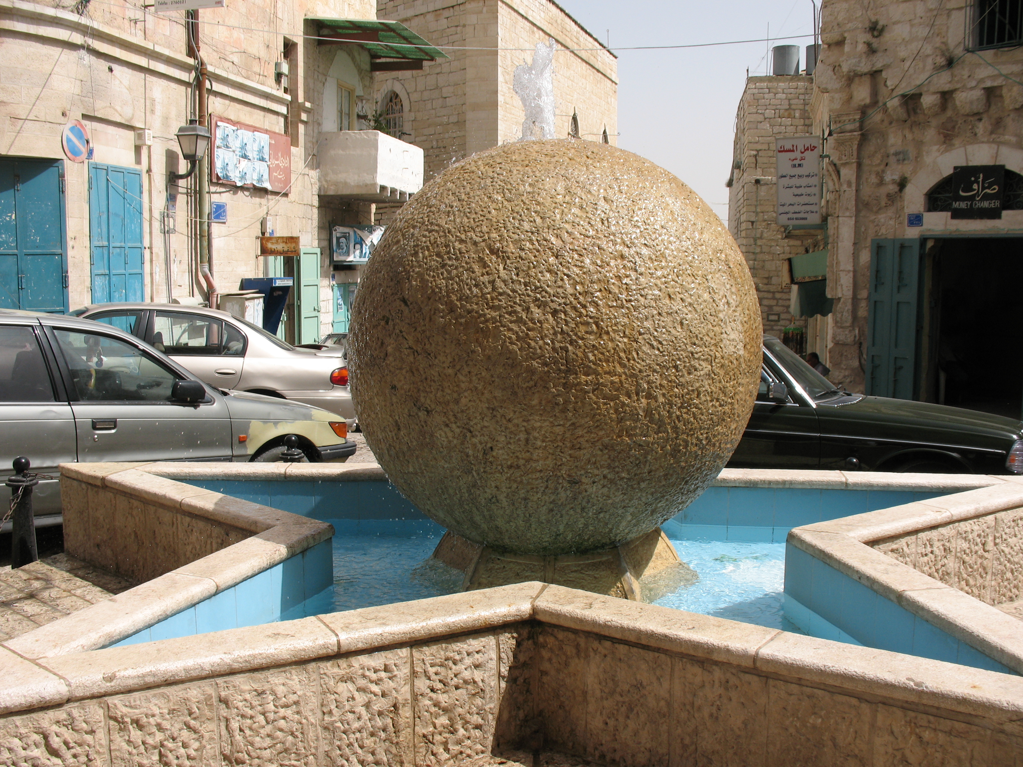 Bethlehem Star Fountain_1652 Bethlehem Street. Pictures taken while walking or riding bus in Bethlehem (plus two pics from a gift shop)